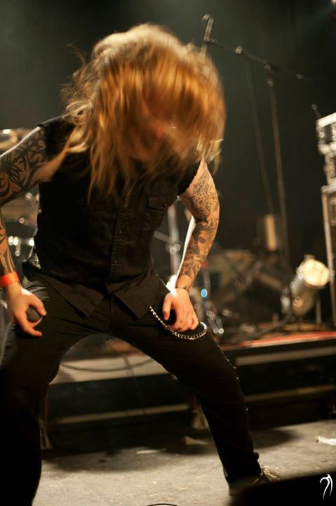 Finnish death metal singer Antony Hämäläinen headbanging during the performance of his band Nightrage in Magasin 4, Brussels (Belgium) on May 4th, 2012